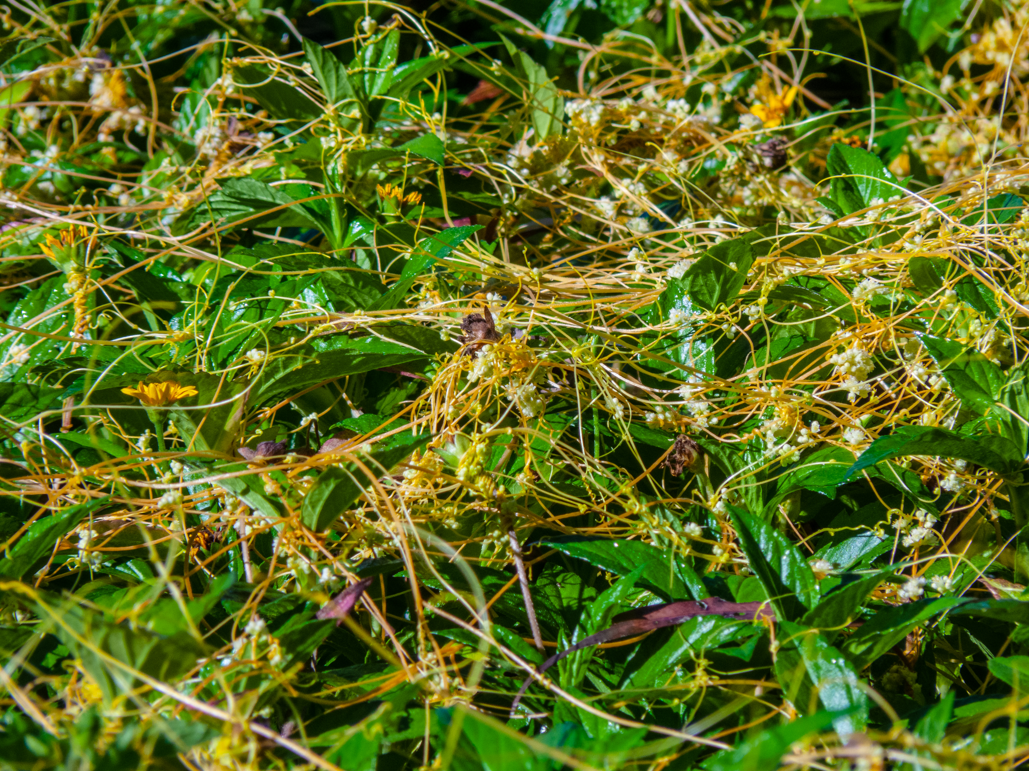 Cuscuta australis, dodder, occasionally parasitizes plants in 7th Brigade Park.